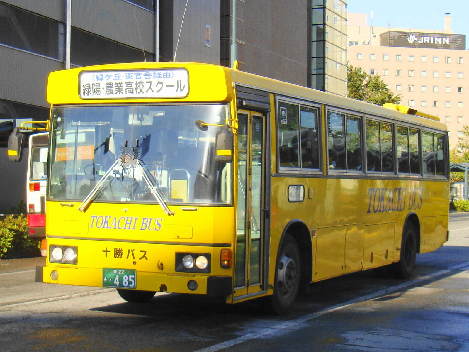 School bus